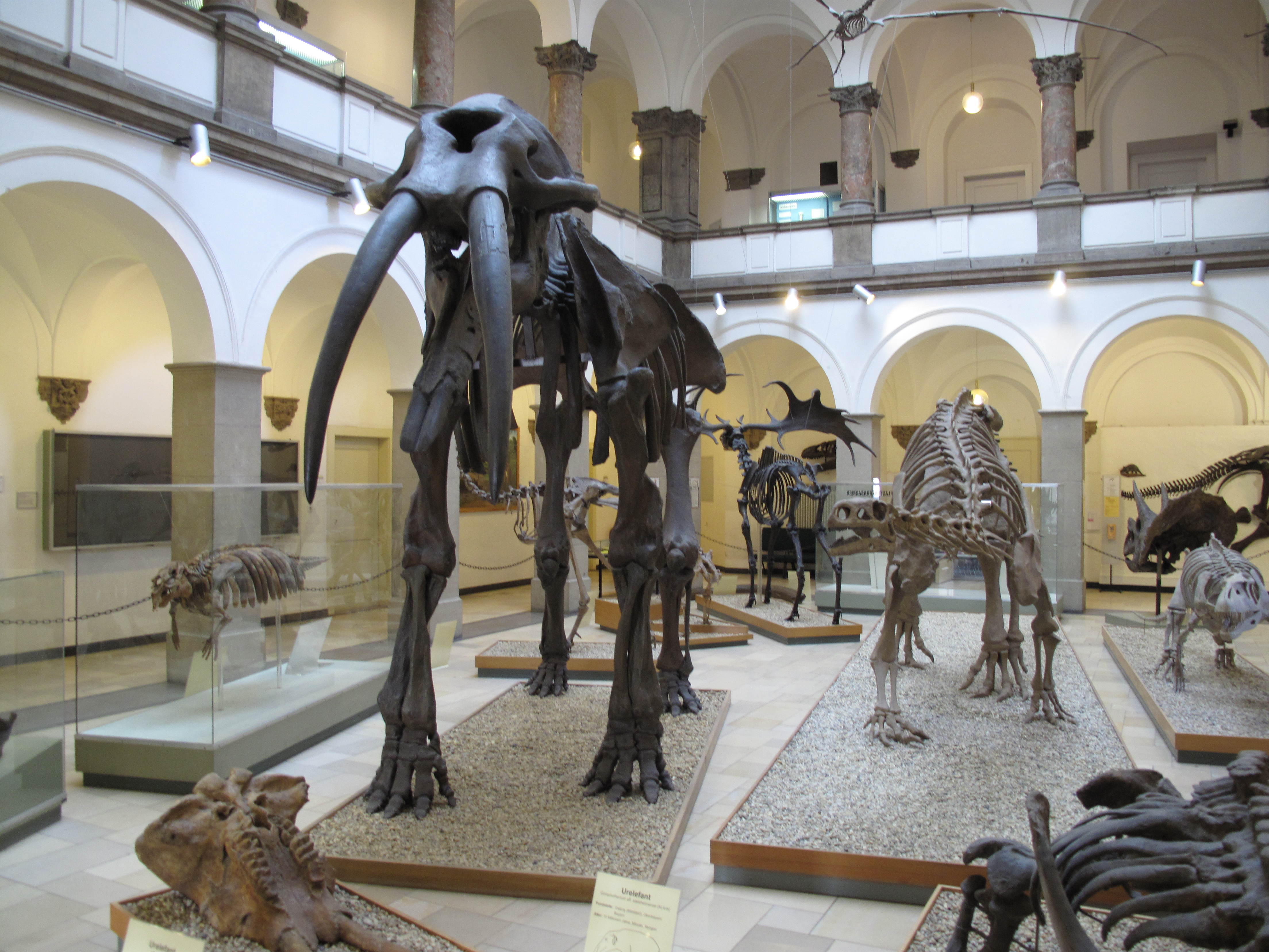 The Paläontologische Museum in Munich, Germany.